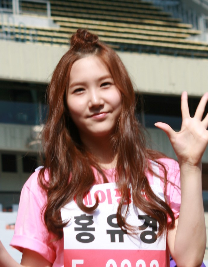 Hong Yookyung at 2011 Idol Star Athletics Championships